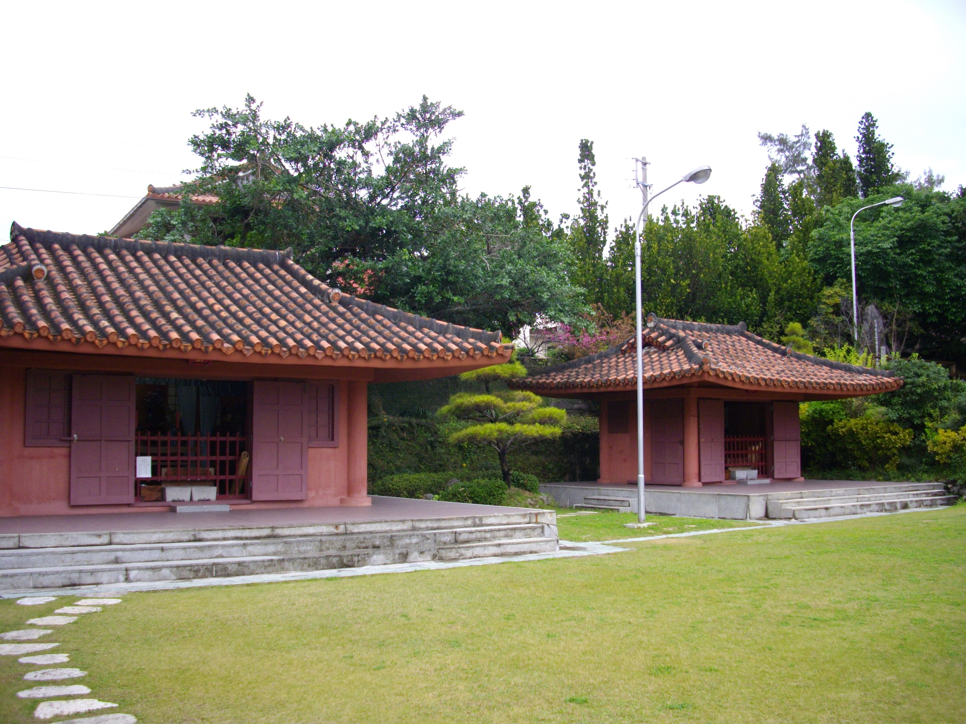 Tenpigū (天妃宮, right) and Tensonbyō (天尊廟, left) buildings at Shiseibyō (至聖廟) Confucian temple in Naha, Okinawa.